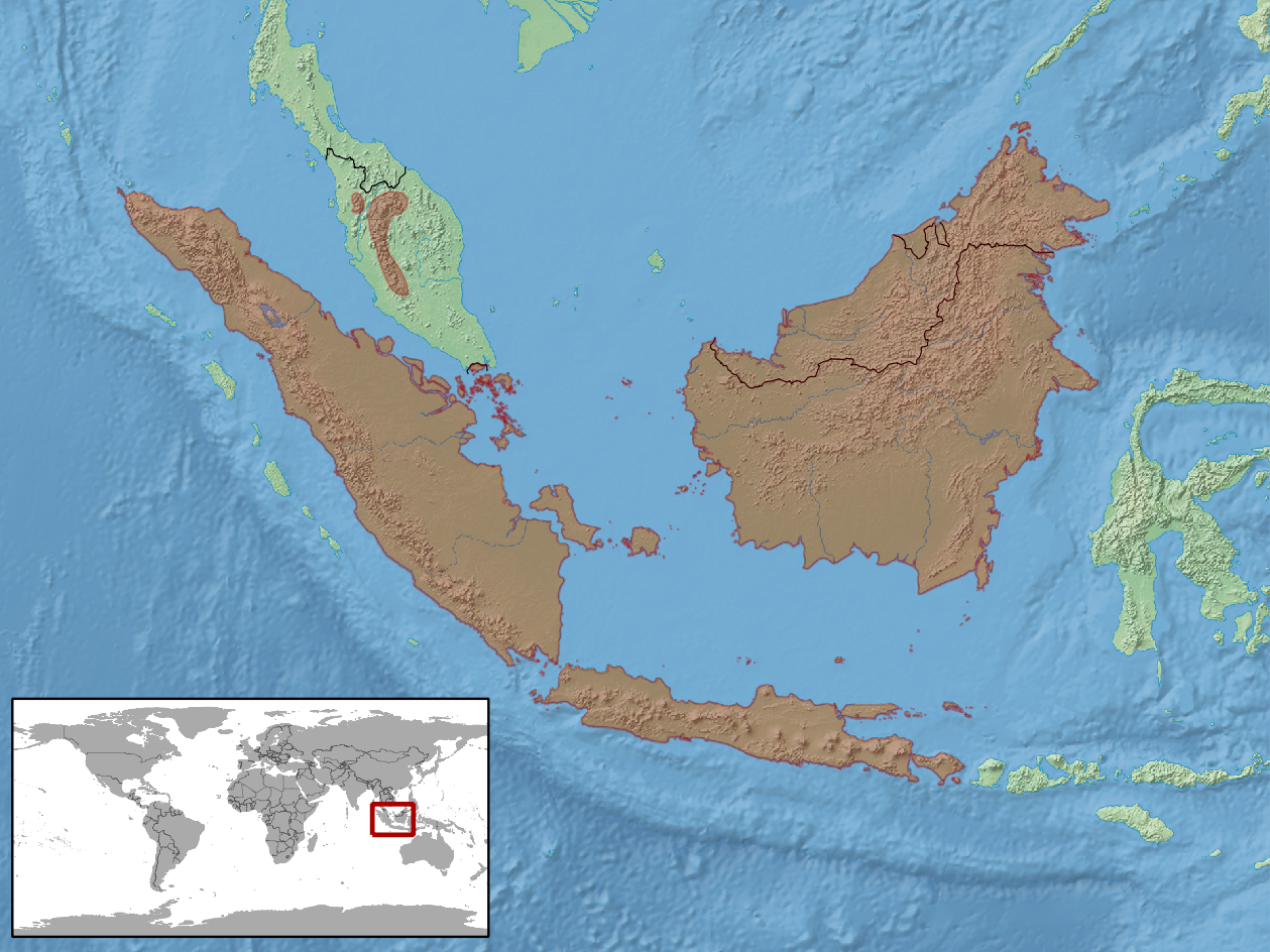 geographic distribution of Calamaria schlegeli (Native: Brunei Darussalam; Indonesia (Bali, Jawa, Kalimantan, Sumatera); Malaysia (Peninsular Malaysia, Sabah, Sarawak); Singapore)